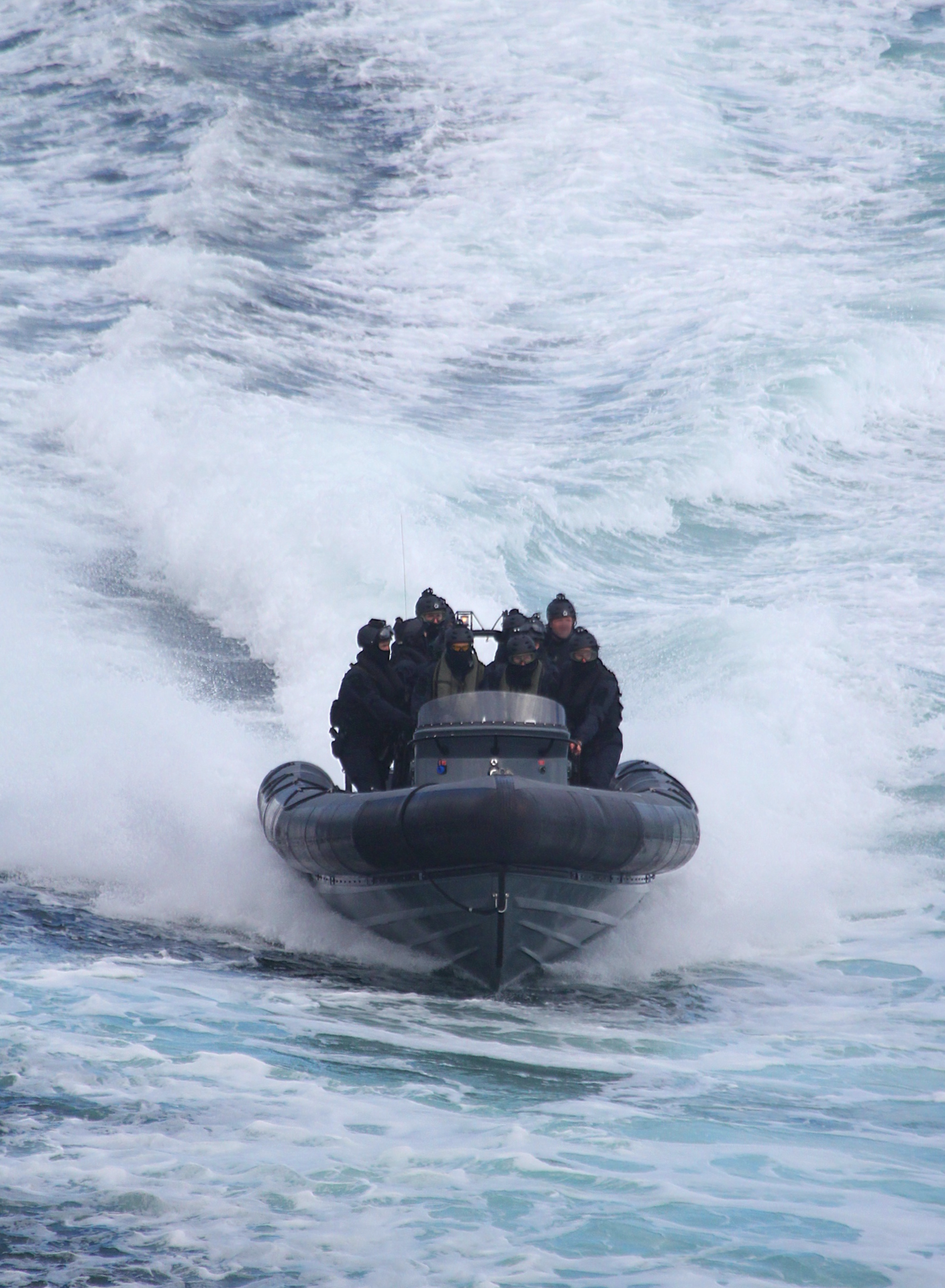 Ireland Army Ranger Wing (ARW) in a assault craft to reach the ship